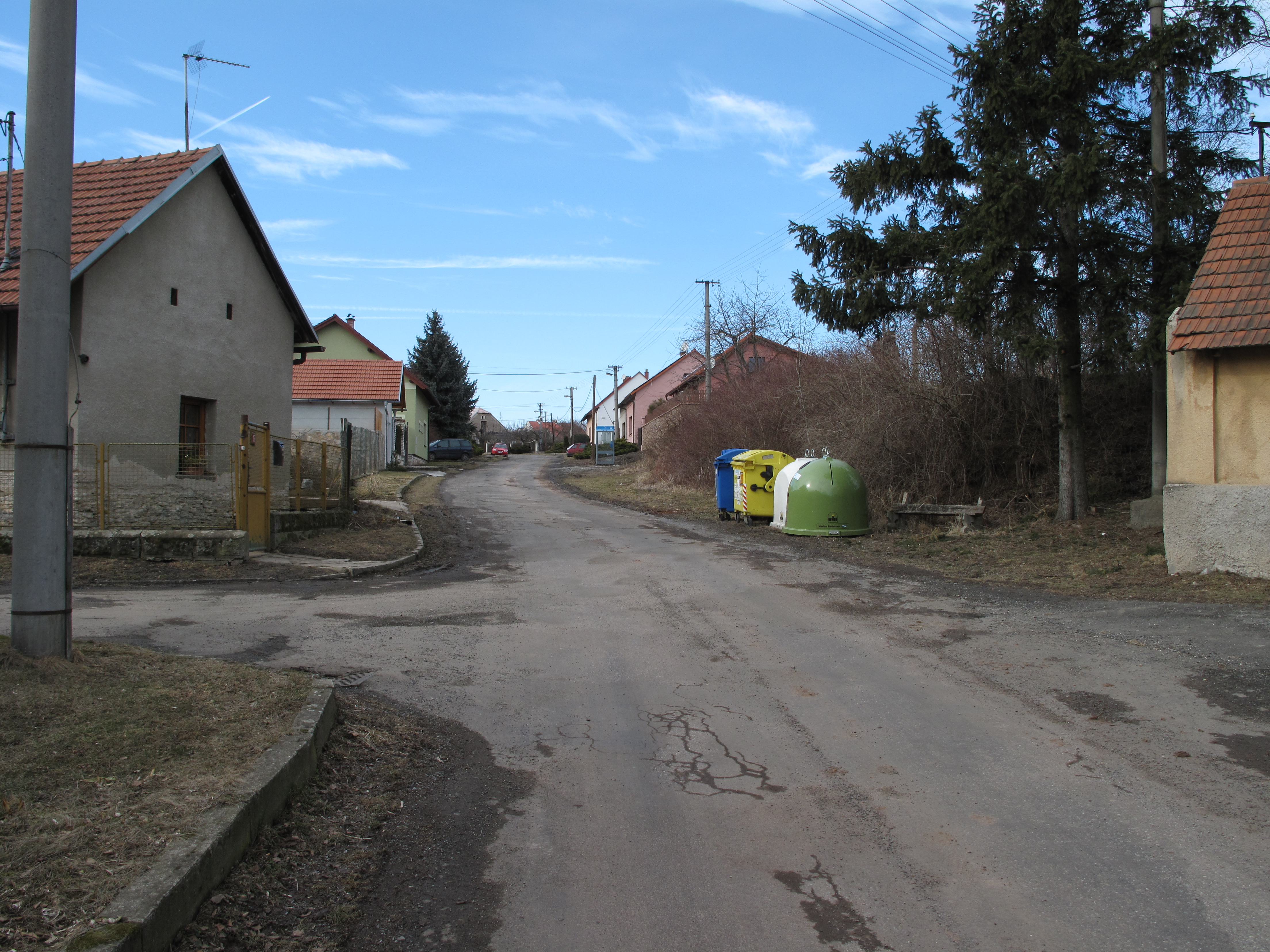 Village square and sorted waste management containers in Bohouňovice I, Kolín District, Czech Republic.